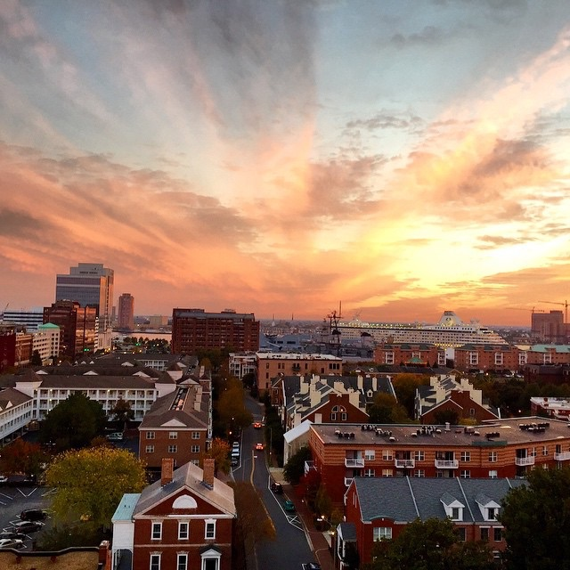 Norfolk's Freemason Historic District at Sunset